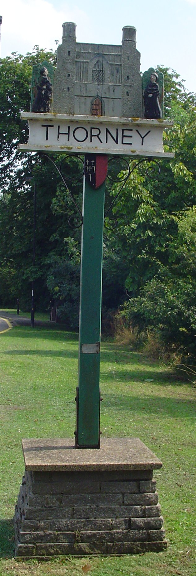 Signpost in Tohney, Cambridgeshire